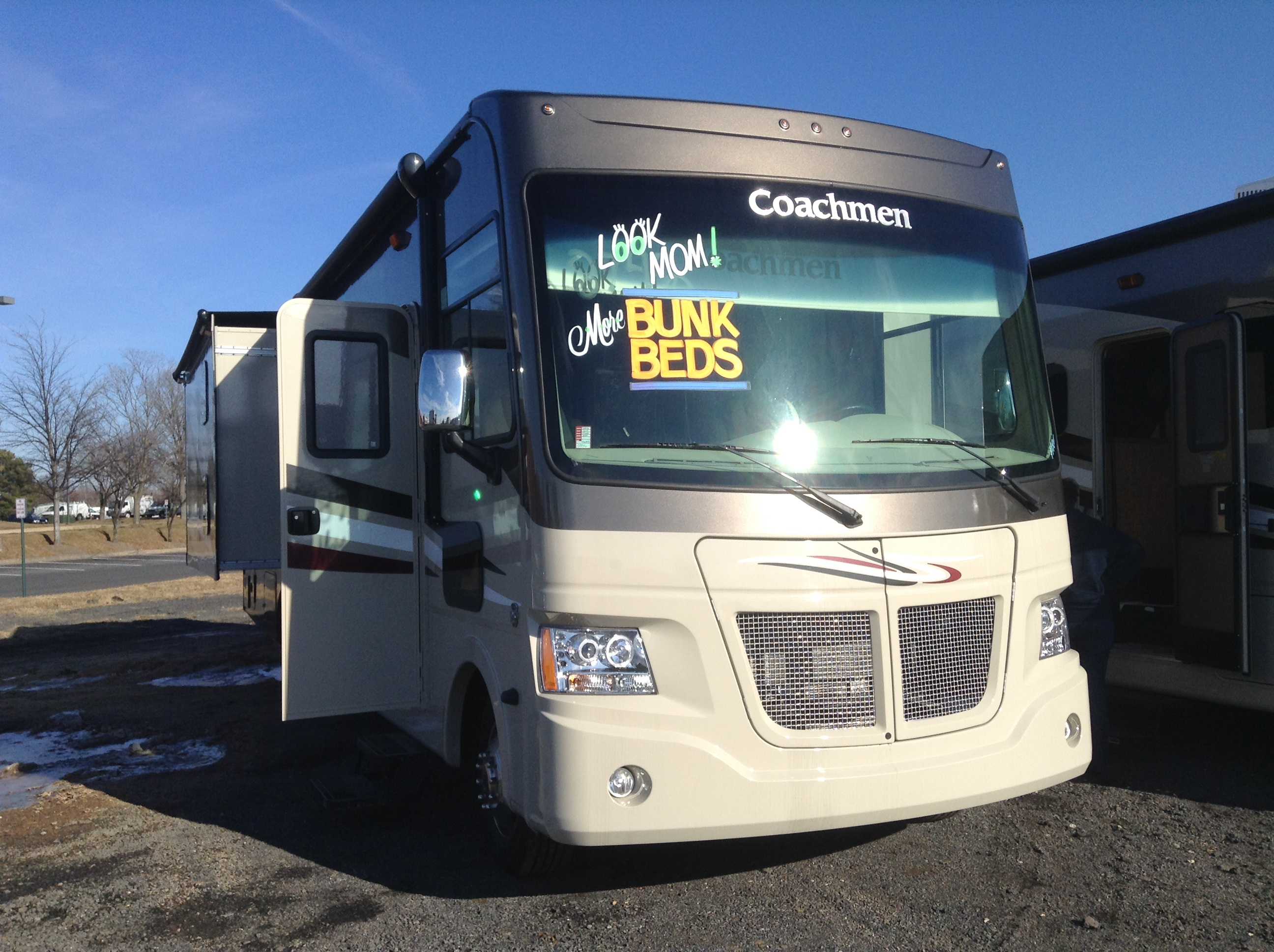 This Class A Gas RV was at the Dulles Expo Center in Chantilly, VA for an RV show on the weekend on January 16-18, 2015.